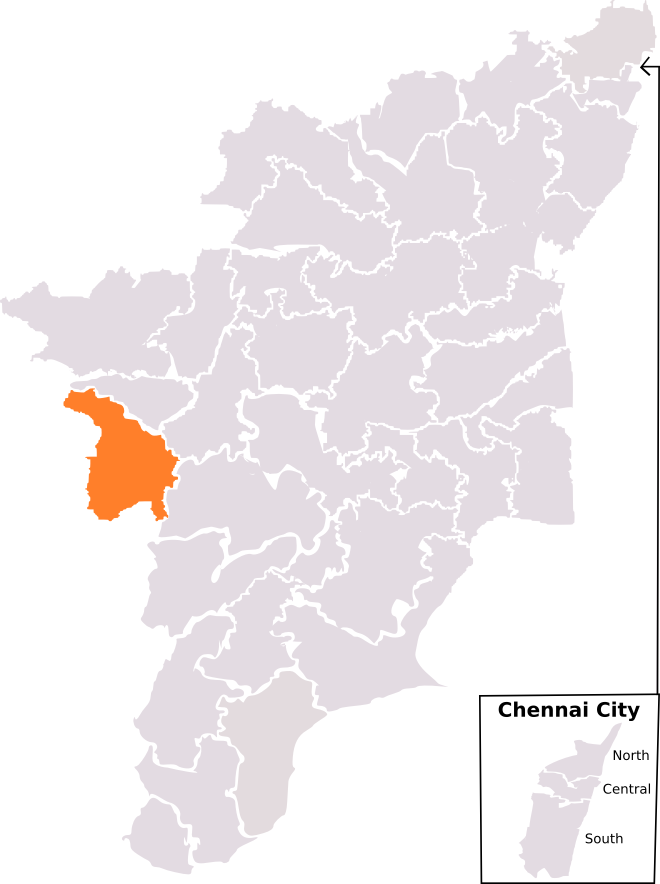 Lok Sabha Election map for Tamil Nadu. Map is based on ECI drawn map. Results are based on ECI website.